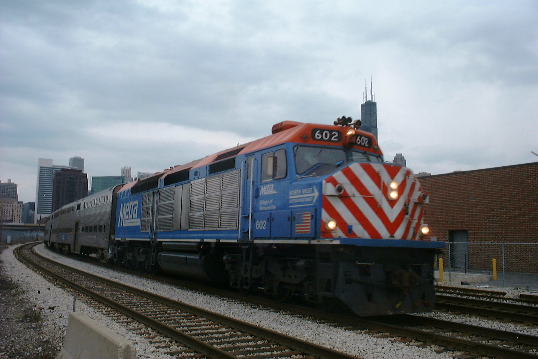 EMD F40C diesel locomotive by Metra (Chicago) #602. The 602 was eventually sold along with most of Metra's other F40C locomotives.